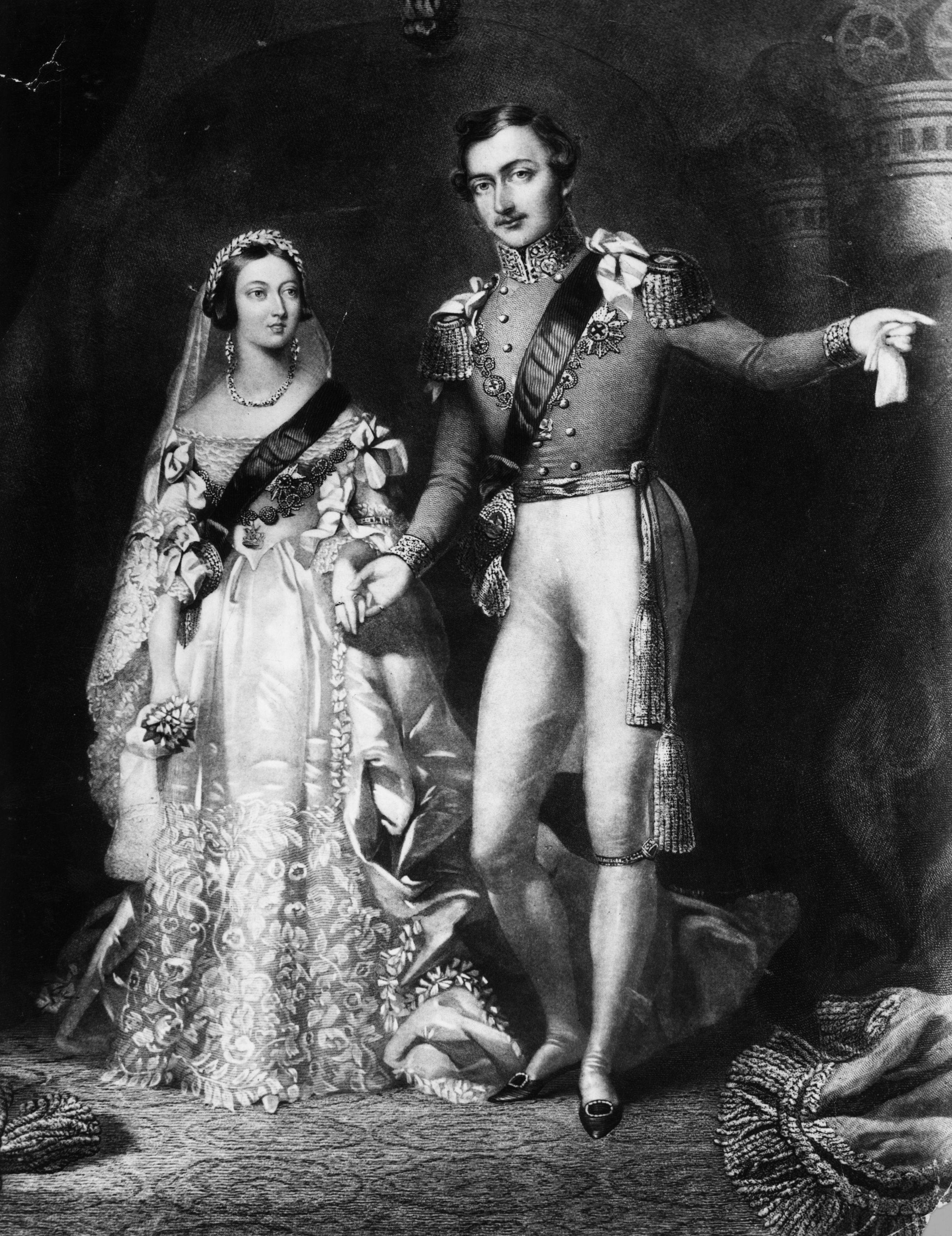 10th February 1840: Queen Victoria (1819 - 1901) and Prince Albert (1819 - 1861) on their return from the marriage service at St James's Palace, London. Original Artwork: Engraved by S Reynolds after F Lock.